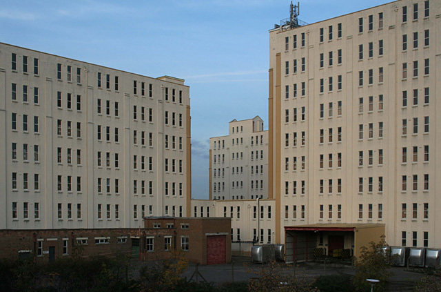 Tobacco warehouses, Radford, Nottingham An imposing set of bonded warehouses built by John Player and Sons, they are still used by Imperial Tobacco.